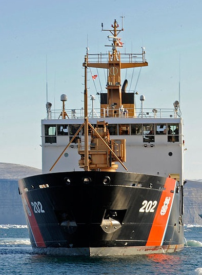 Crop o f File:USCGC Willow and HDMS Ejnar Mikkelsen -a .jpg to focus on USCGC Willow.